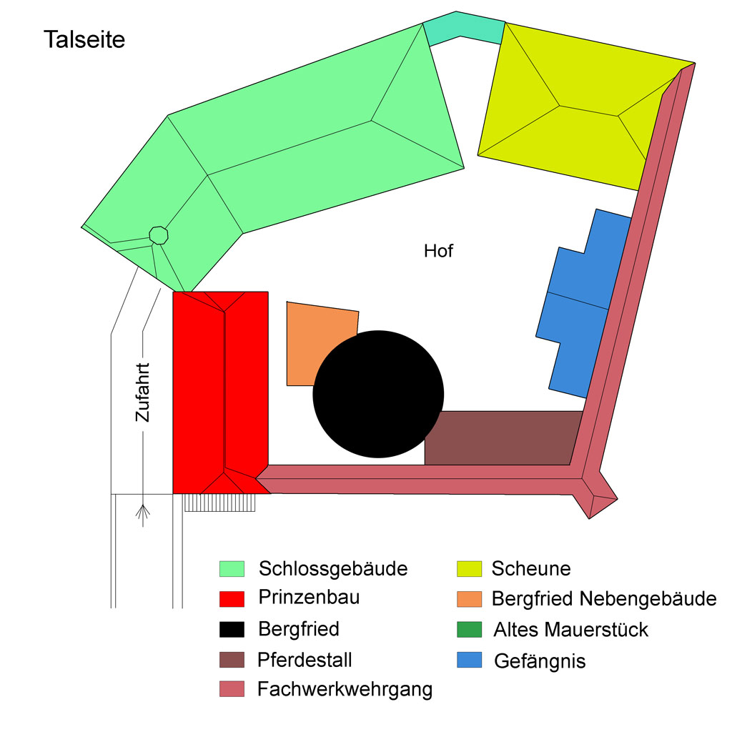 floor plan of the Castle Reichenberg (Germany)